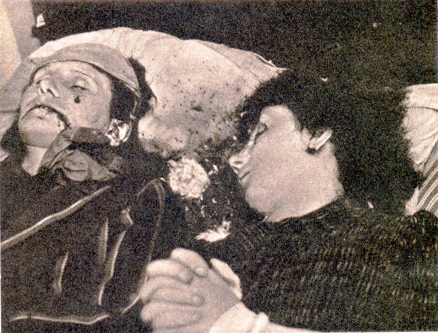 Sestri Šusterič Antonija in Frančiška, ustreljeni 9.8.1944 v Spodnji Hrušici od Črne roke